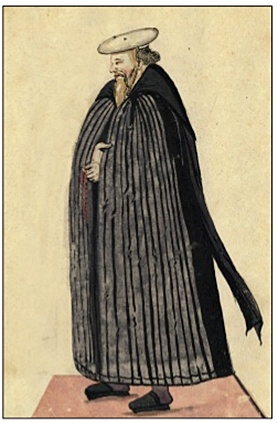 Stuhlbruder in Speyer, um 1550